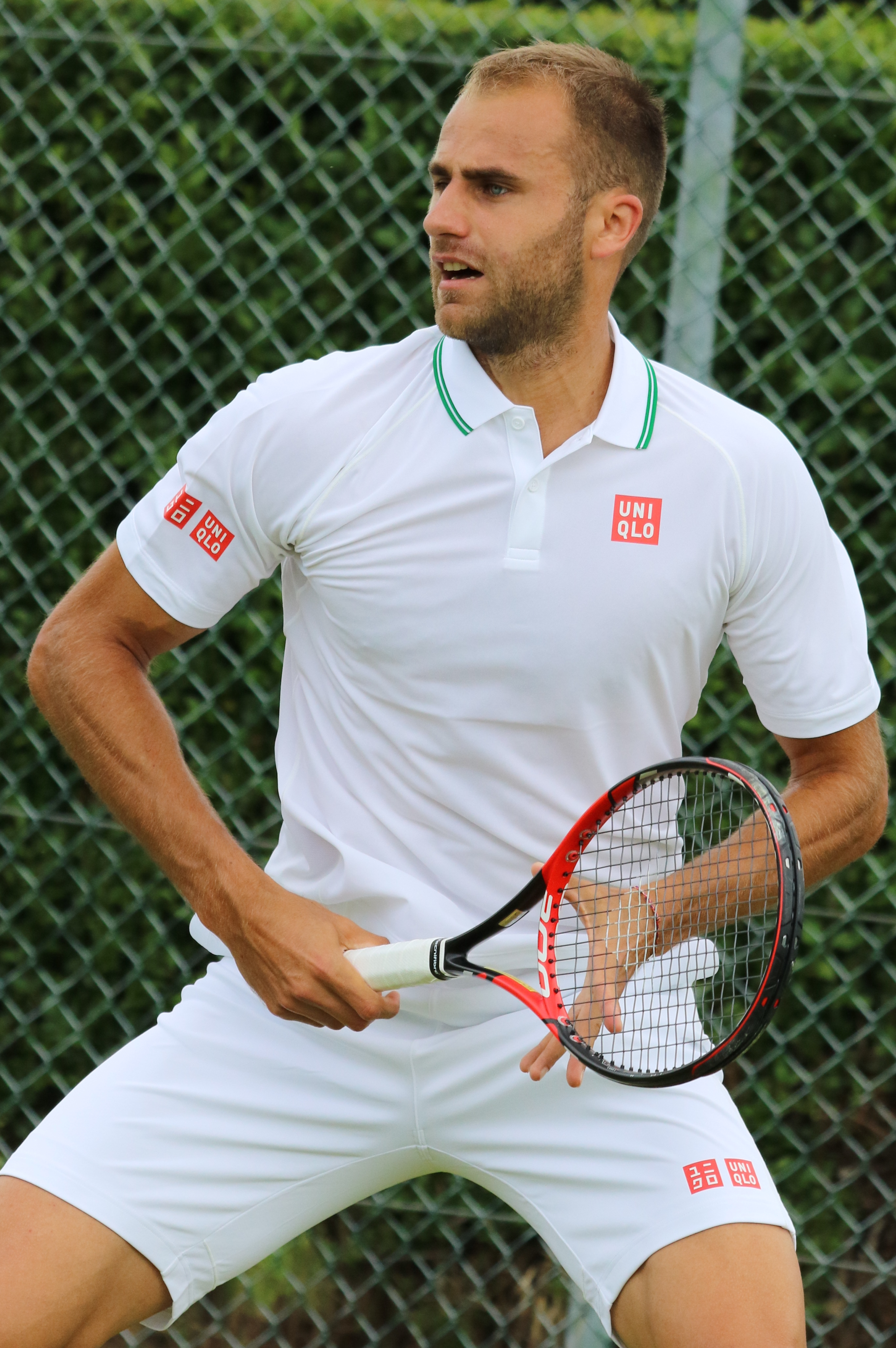 Copil WMQ16 (3)